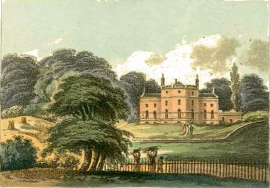 Engraving of Durdans, country house near Epsom, Surrey, England.